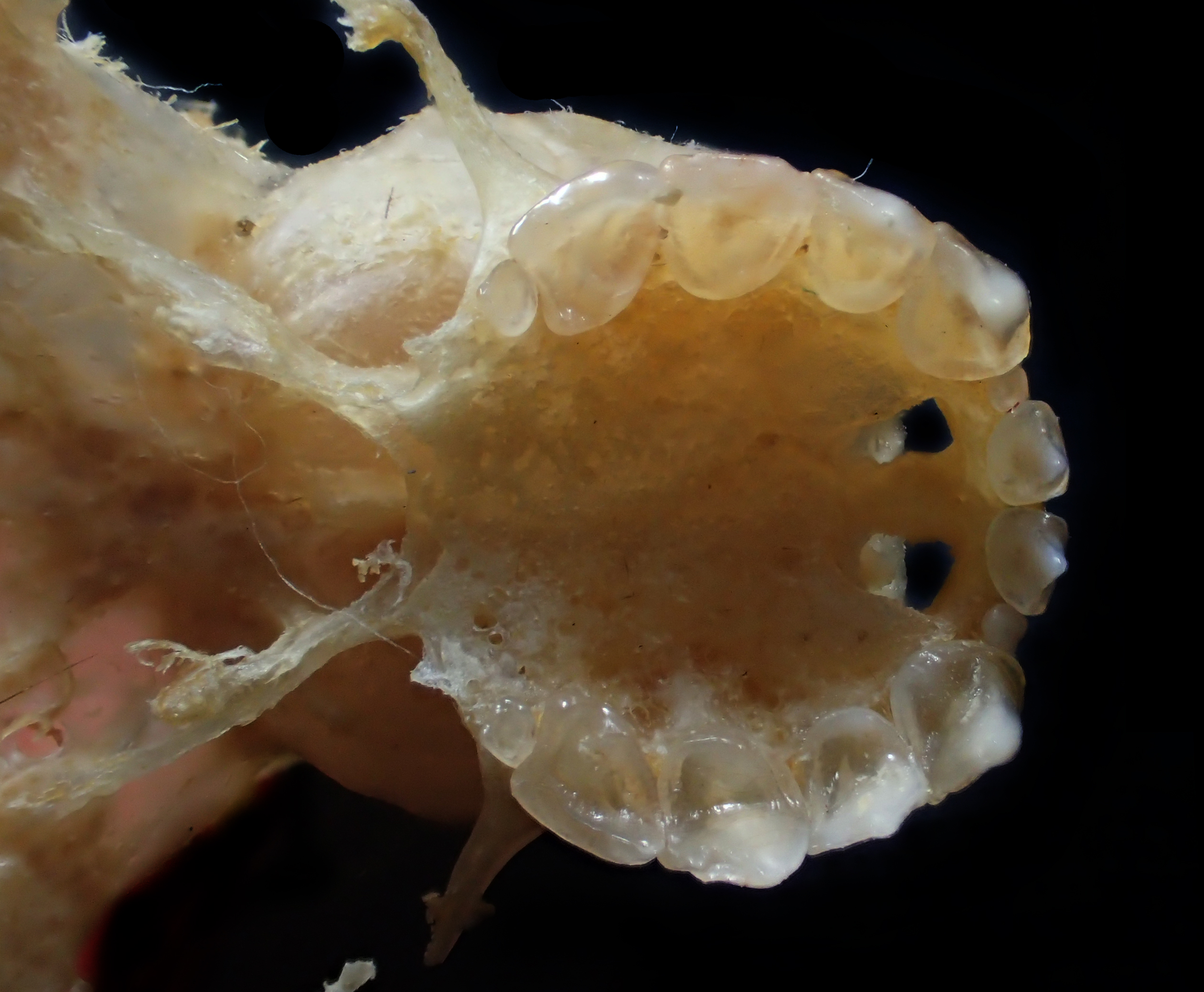 Dental arcade of Pygoderma bilabiatum in occlusal view